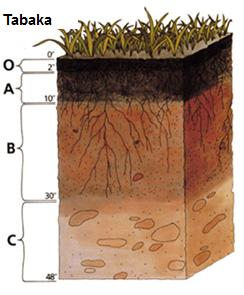 Nimeiswahilisha kutoka faili Soil_profile.png